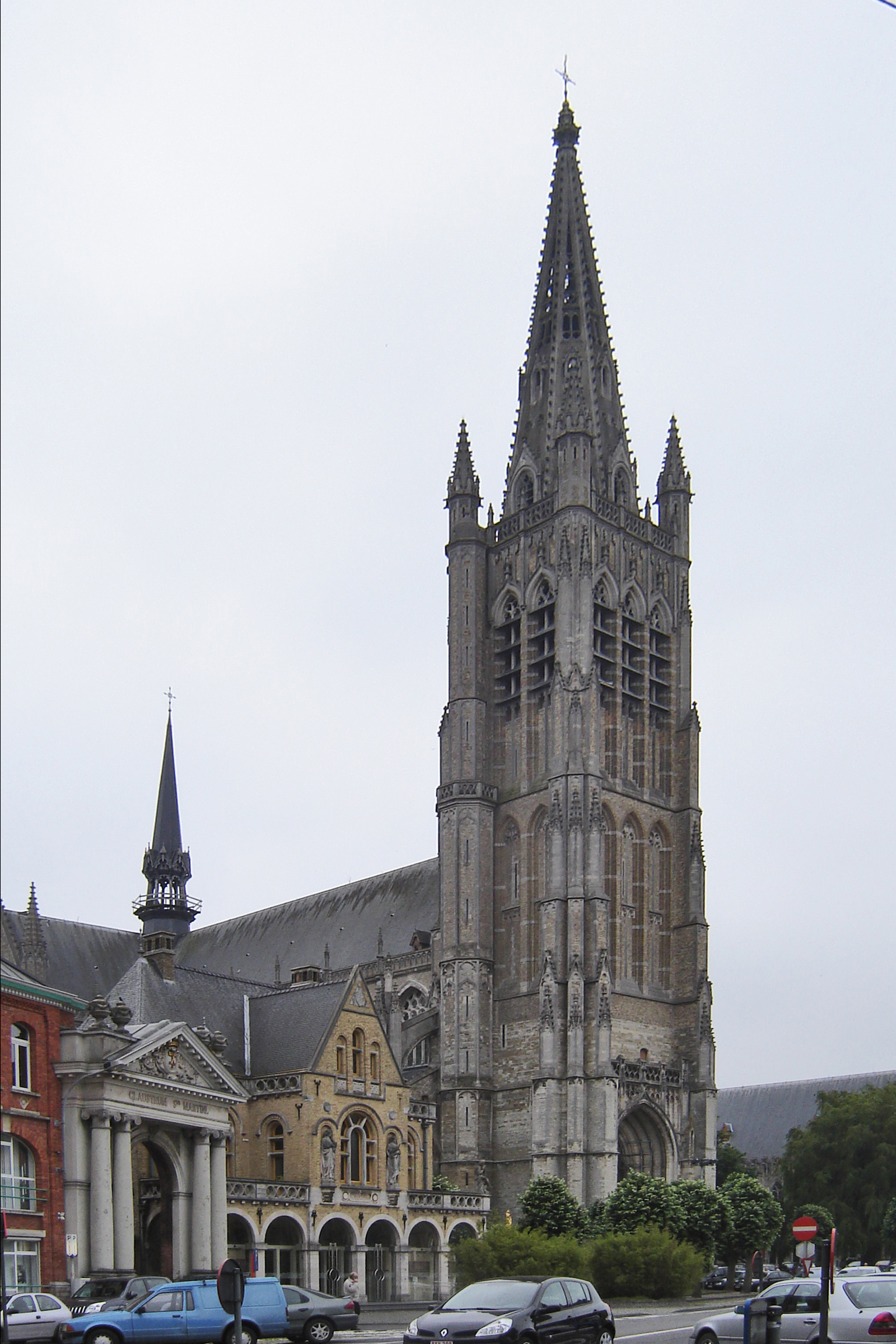 Cathedral of Saint Martin in Ieper, West Flanders, Belgium